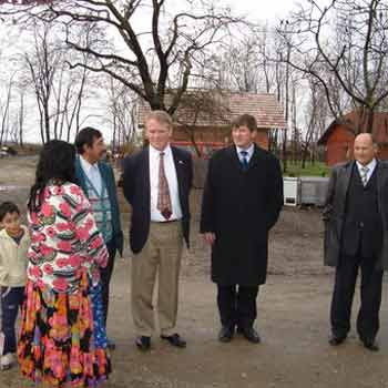 US ambassador Robertson visiting the Roma settlement of Kerinov Grm in the municipality of Krsko with Mayor Franc Bogovič and Roma representative on the Krsko City Council Zdravko Kovačič